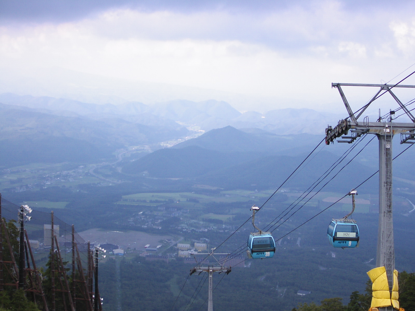 Appi Gondola in Appi Snow Resort in Hachimantai City, Iwate Prefecture, Japan